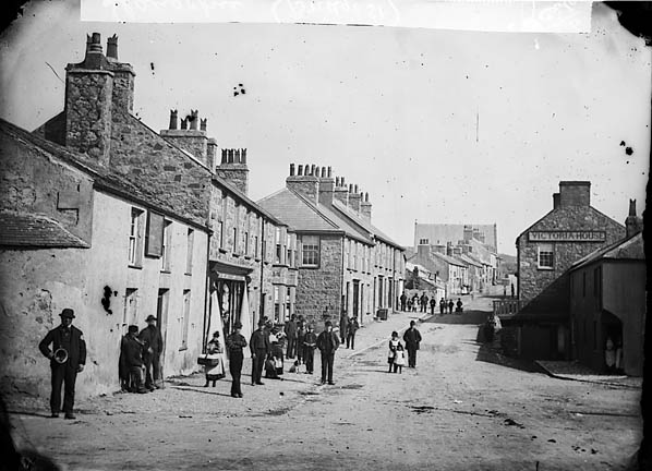 1 negative : glass, wet collodion, b&w ; 12 x 16.5 cm.